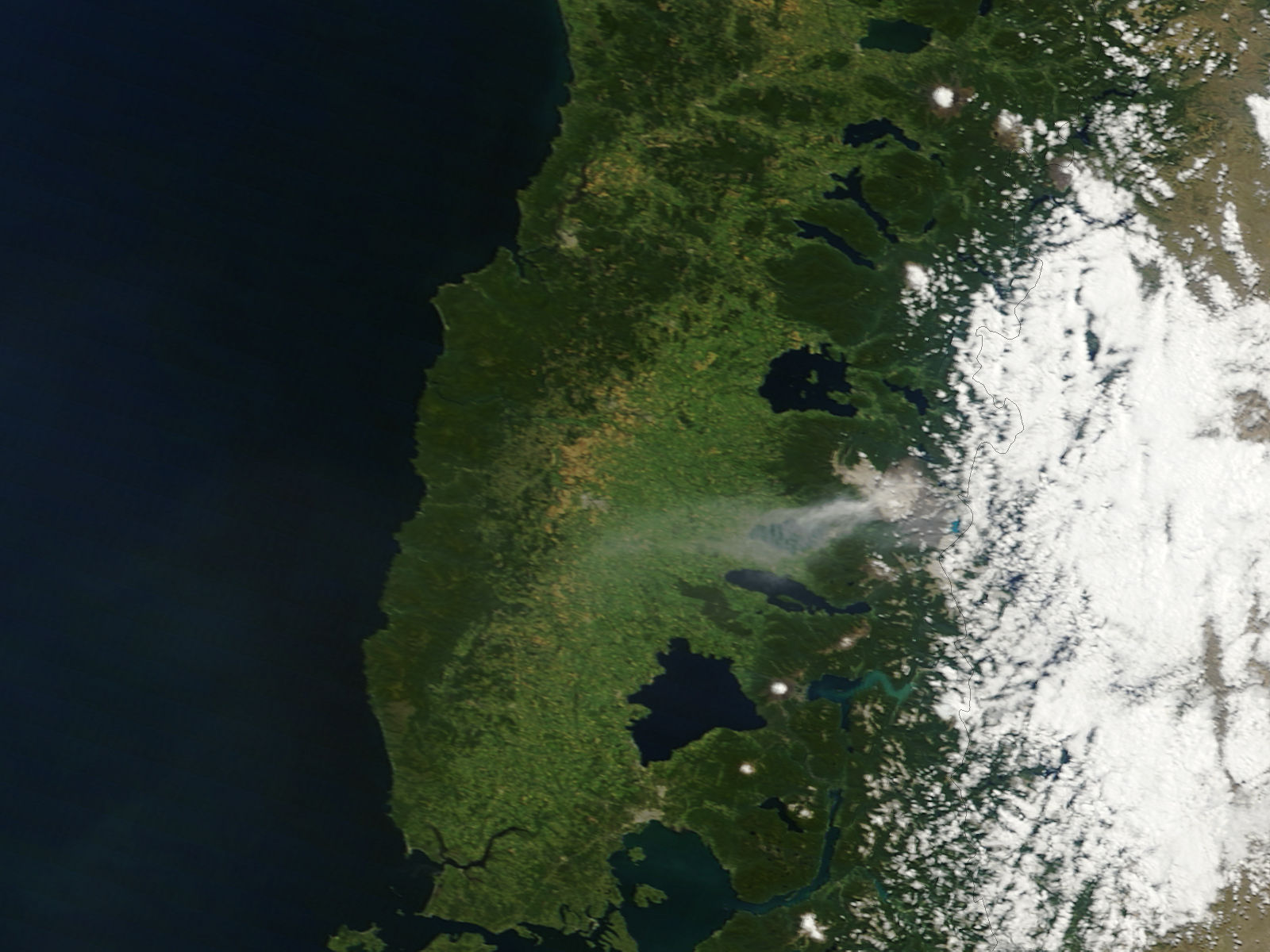 Activity at Puyehue-Cordón Caulle volcano, Chile, (morning overpass), 01-20-2013